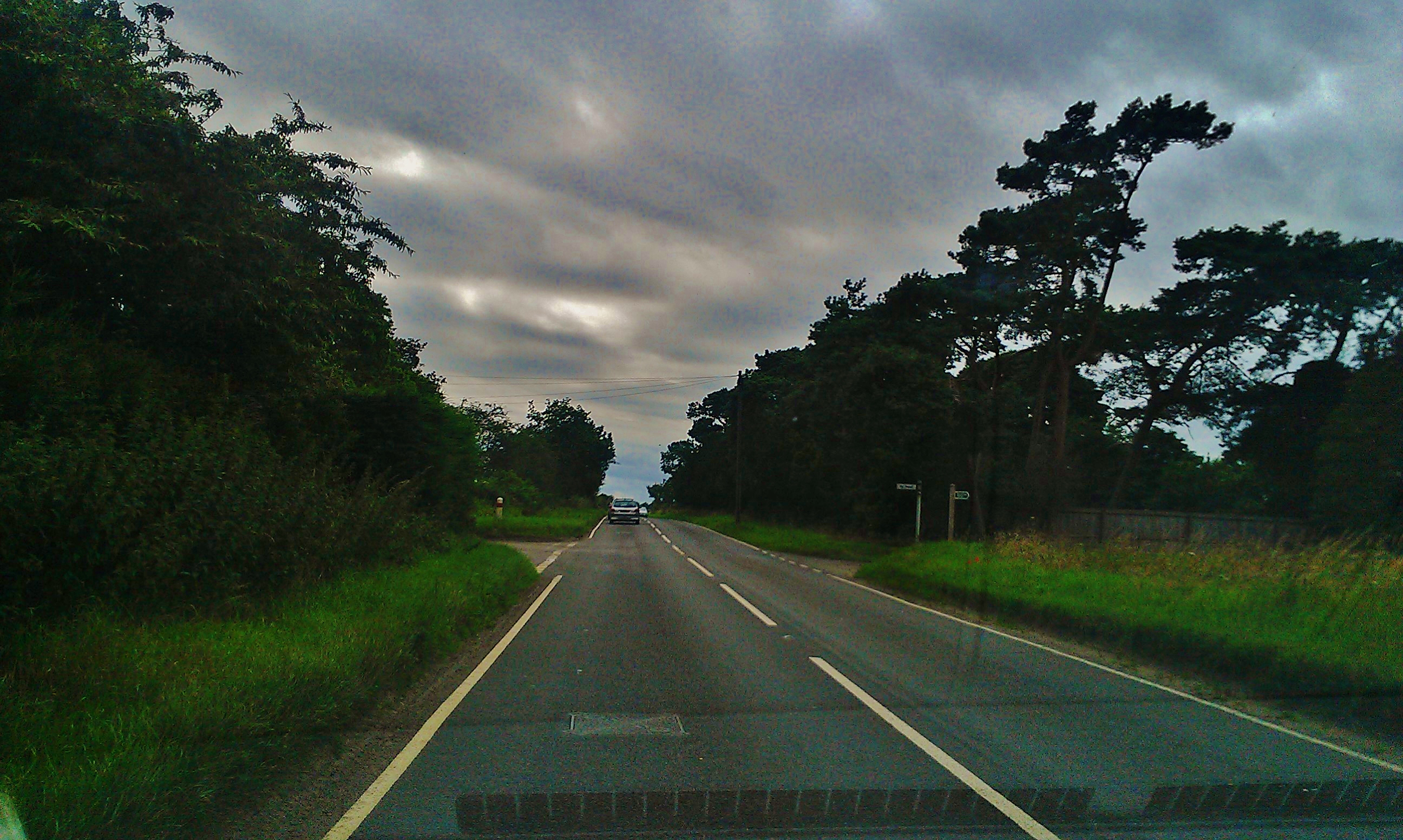 A photograph taken in the summer of 2012, depicting the A1094 Road in Suffolk, Eastern England, covering the site of Snape Anglo-Saxon Cemetery.